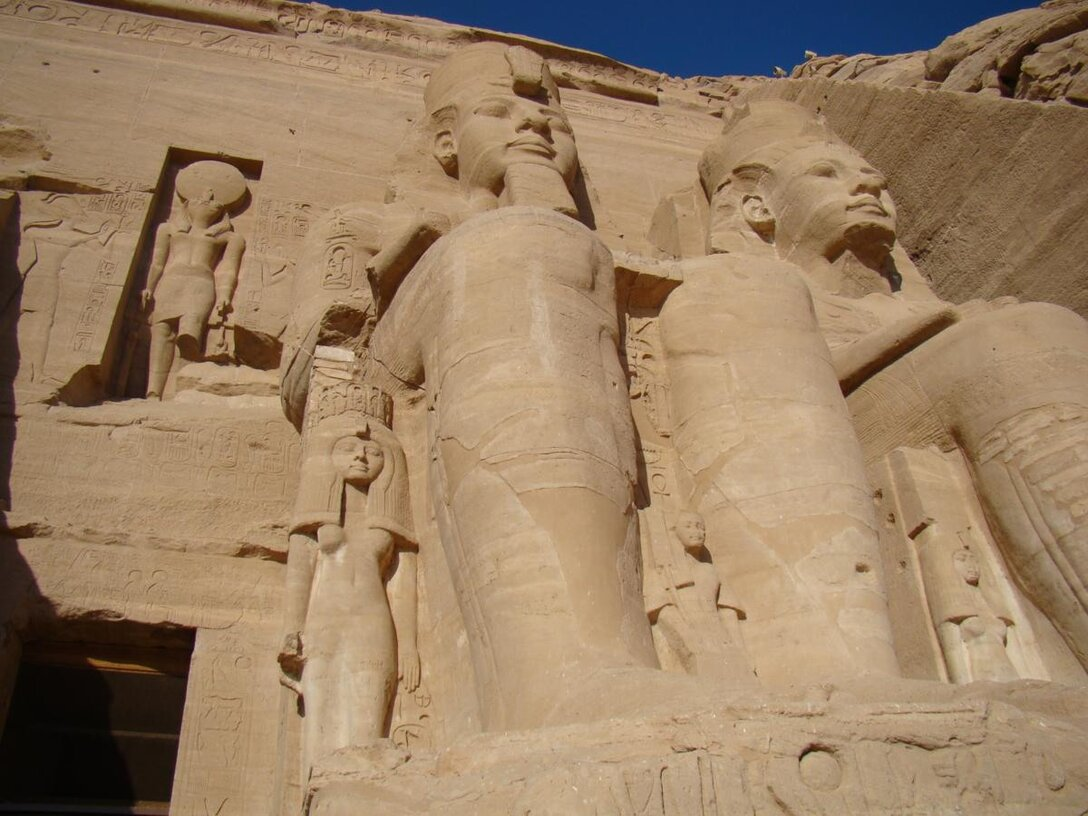 Ramses in Abu-Symbel